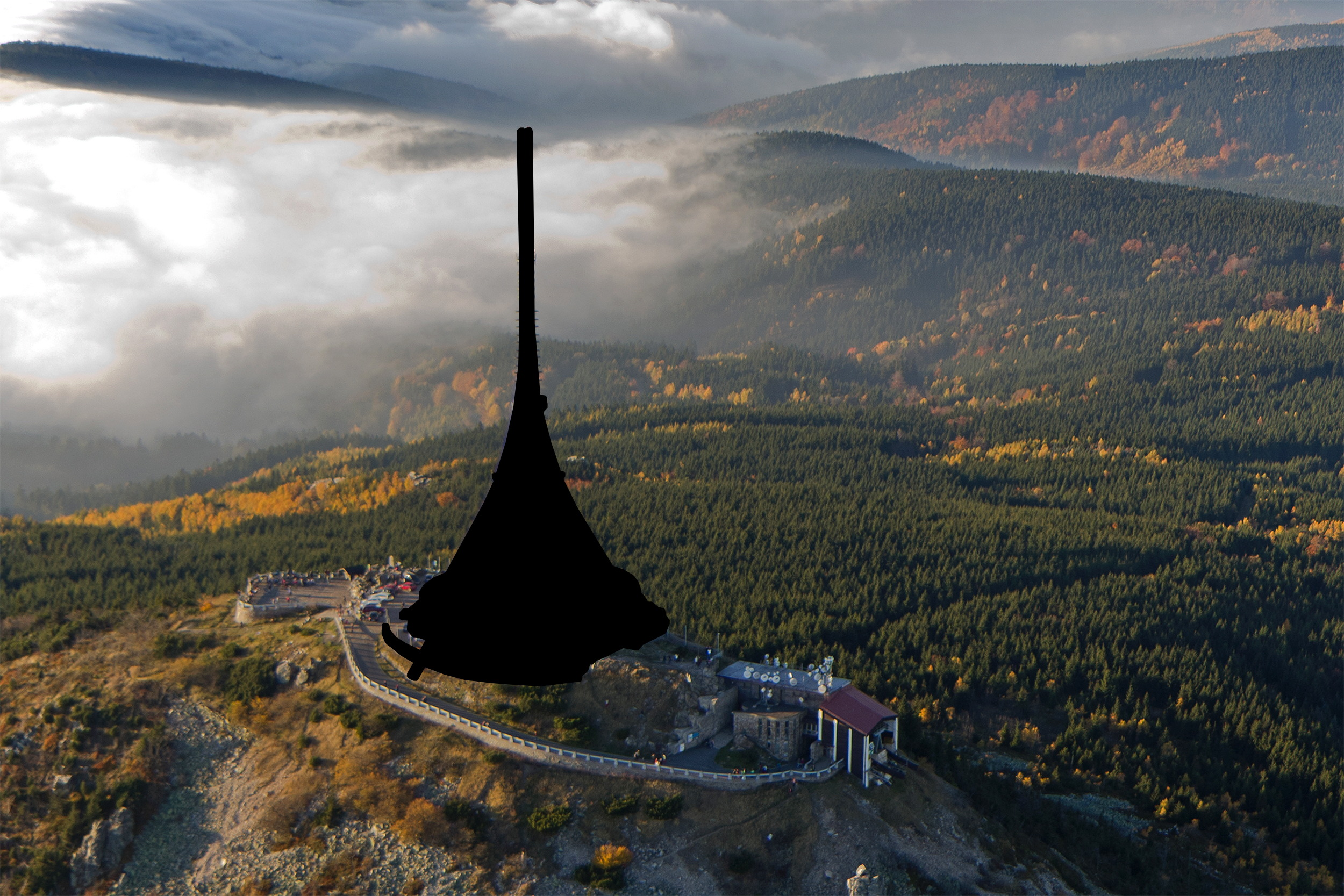 A potential no-FoP version of